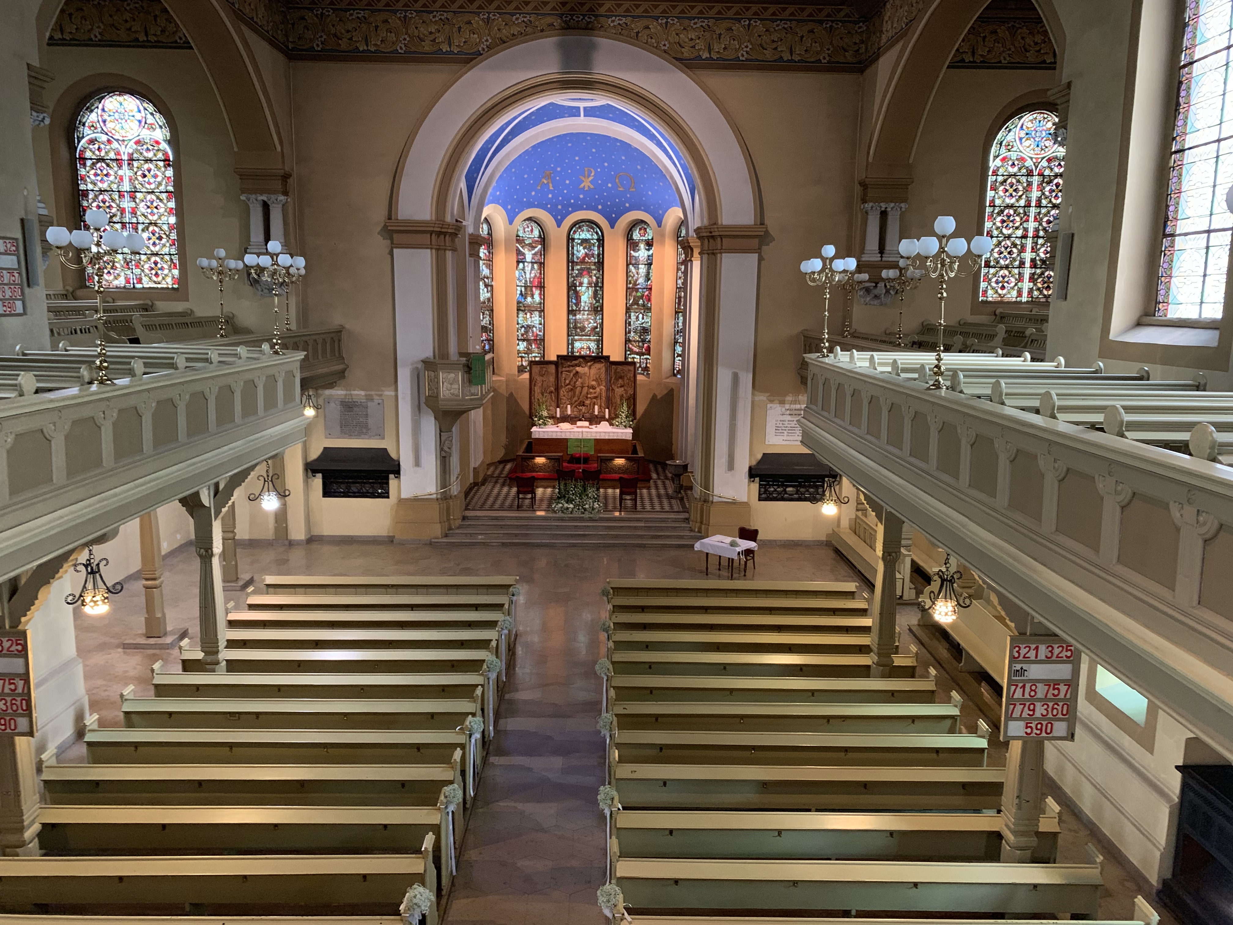 Interior of the Church of the Resurrection, Katowice